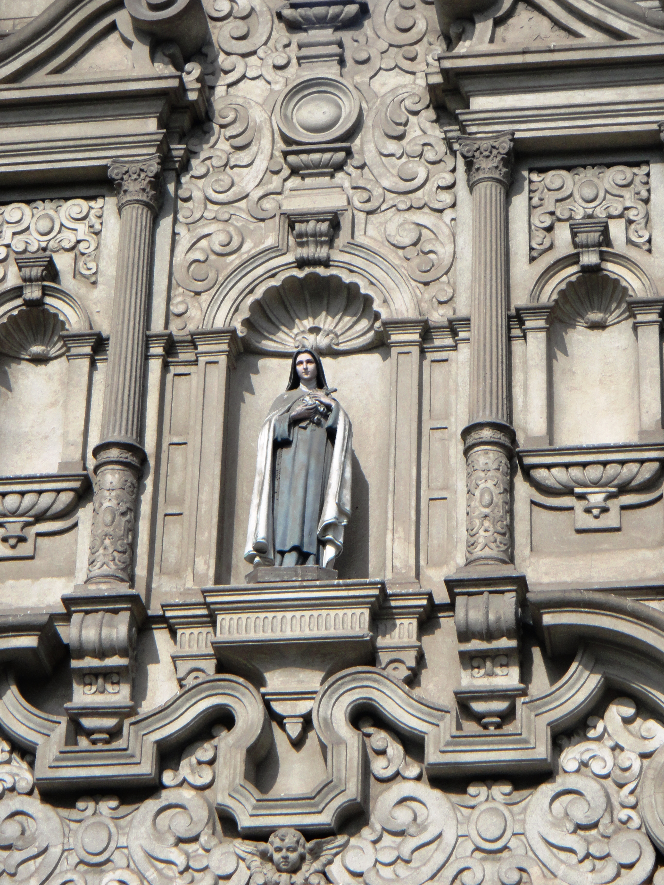 Portal of Saint Thérèse of the Child Jesus church in Lima, Peru.